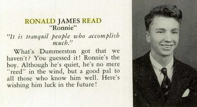 Ronald James Read, pictured on page 34 of his 1940 Brattleboro High School yearbook, The Dial. Full yearbook: (No copyright notice apparently included although website says "These are reprints from previously owned yearbooks so handwriting or effects of aging may be present, and pages, images, or other content may be missing or obscured.")